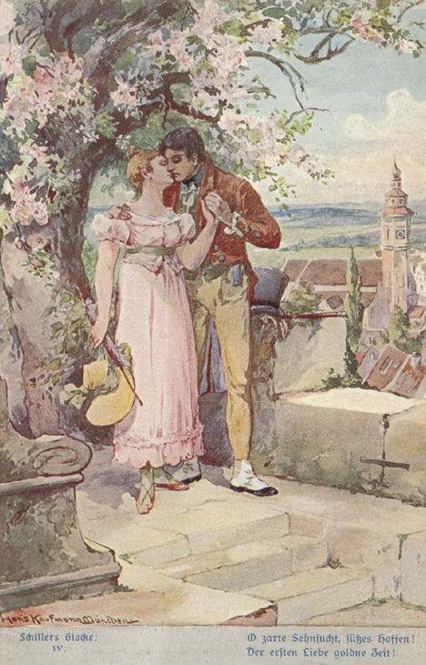 illustration of Friedrich Schiller's "Song of the Bell" (German: "Das Lied von der Glocke")